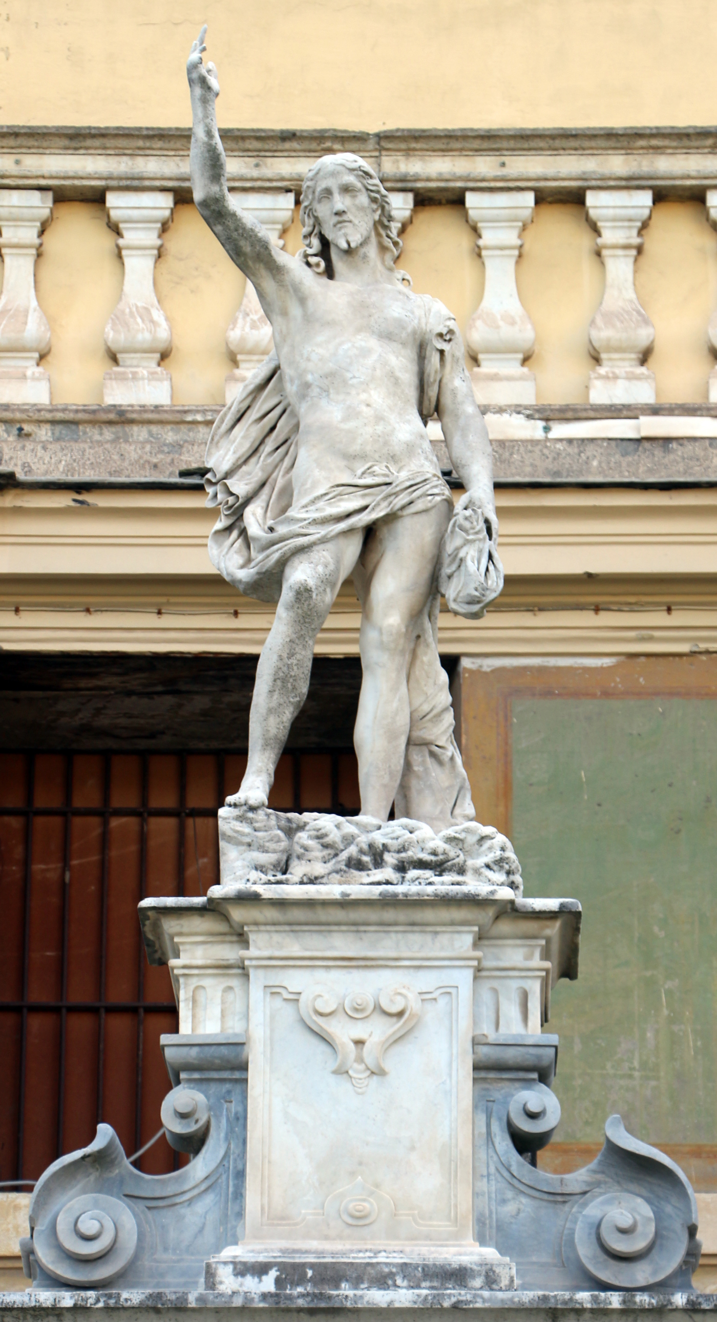 Certosa di San Martino (Naples)